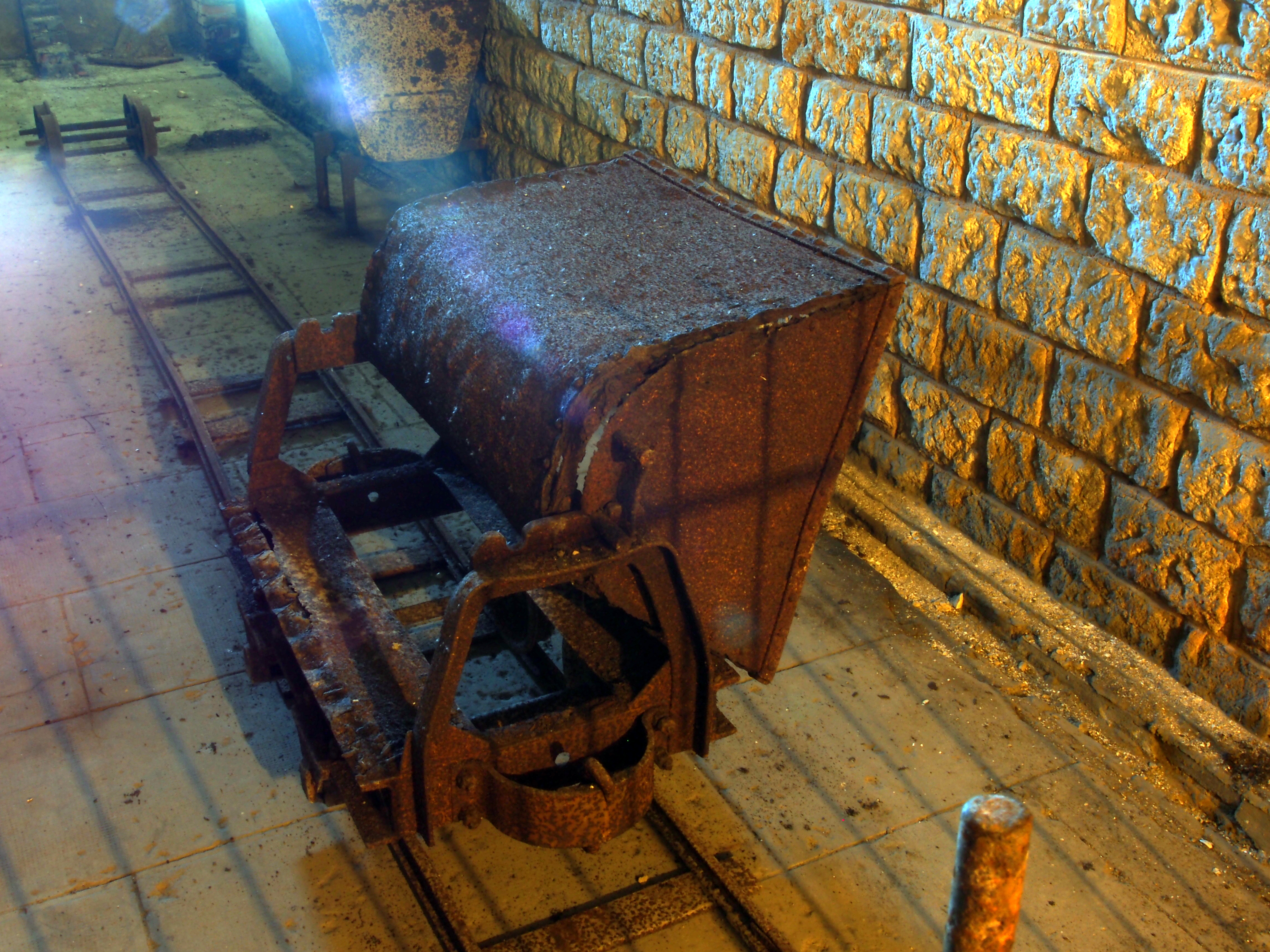 Fort de Douaumont rails with carriage used inside the fortress.